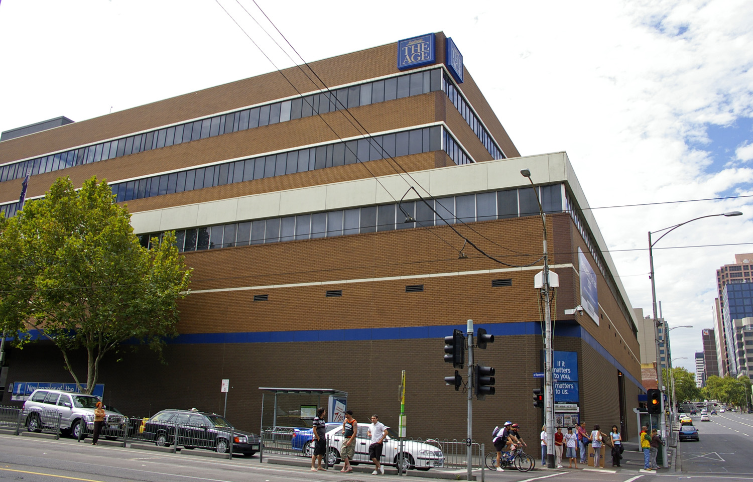 The Age Headquarters in Melbourne, Australia 吴语: 年龄总部在墨尔本，澳洲